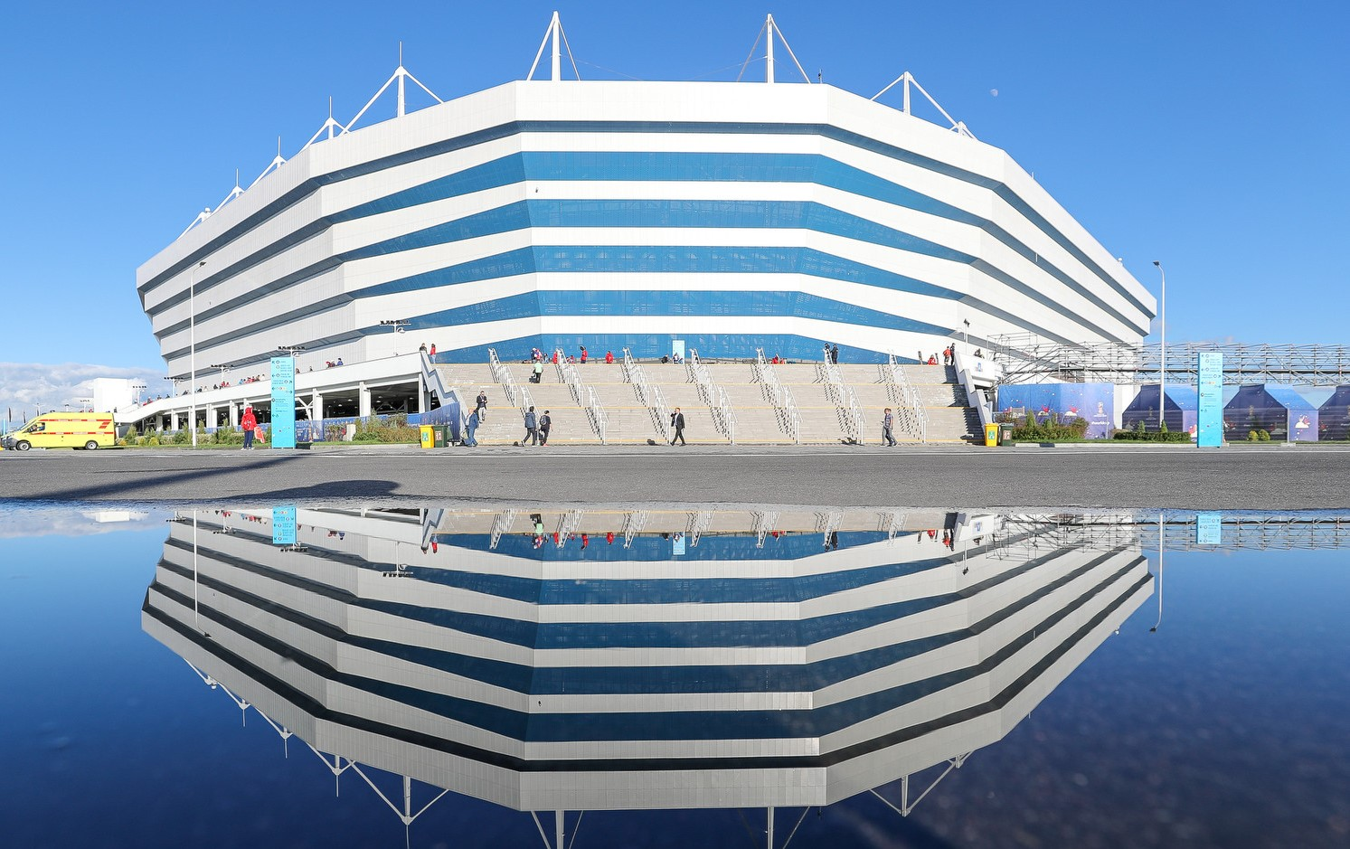 Kaliningrad Stadium